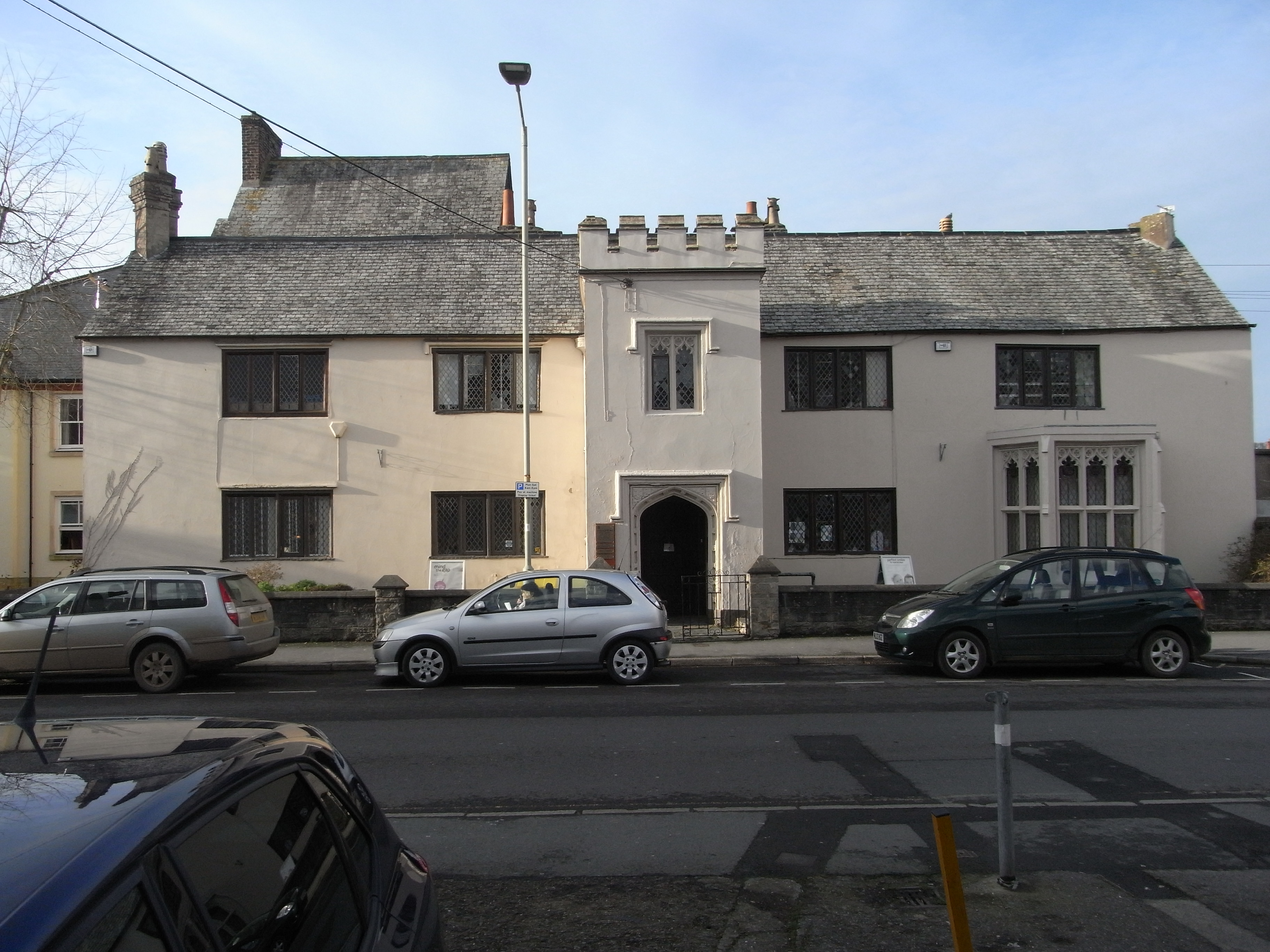 Old Vicarage, Barnstaple, Devon, England. In 2018 serving as a dentist's surgery. Rev. Henry Luxmore (born 1793, Bridestowe, Devon), Vicar of Barnstaple 1820-60 (Chanter, p.100), added to and restored (Chanter, p.51) the ancient vicarage, previously rebuilt during the Civil War by the famous Rev. Martin Blake, (Chanter, p.51) whose son's monument survives in St Peter's Church, Barnstaple. (Chanter, J.R., Memorials Descriptive and Historical, of the Church of St Peter, Barnstaple, with its other ecclesiastical antiquities, and an account of the conventual church of St Mary Magdalene, recently discovered. Barnstaple, 1882.) The arms of Luxmore (Argent, two chevronells gules between three moorcocks close proper) are sculpted in the left spandrel of the porch, with the arms of the See of Exeter in the right spandrel.